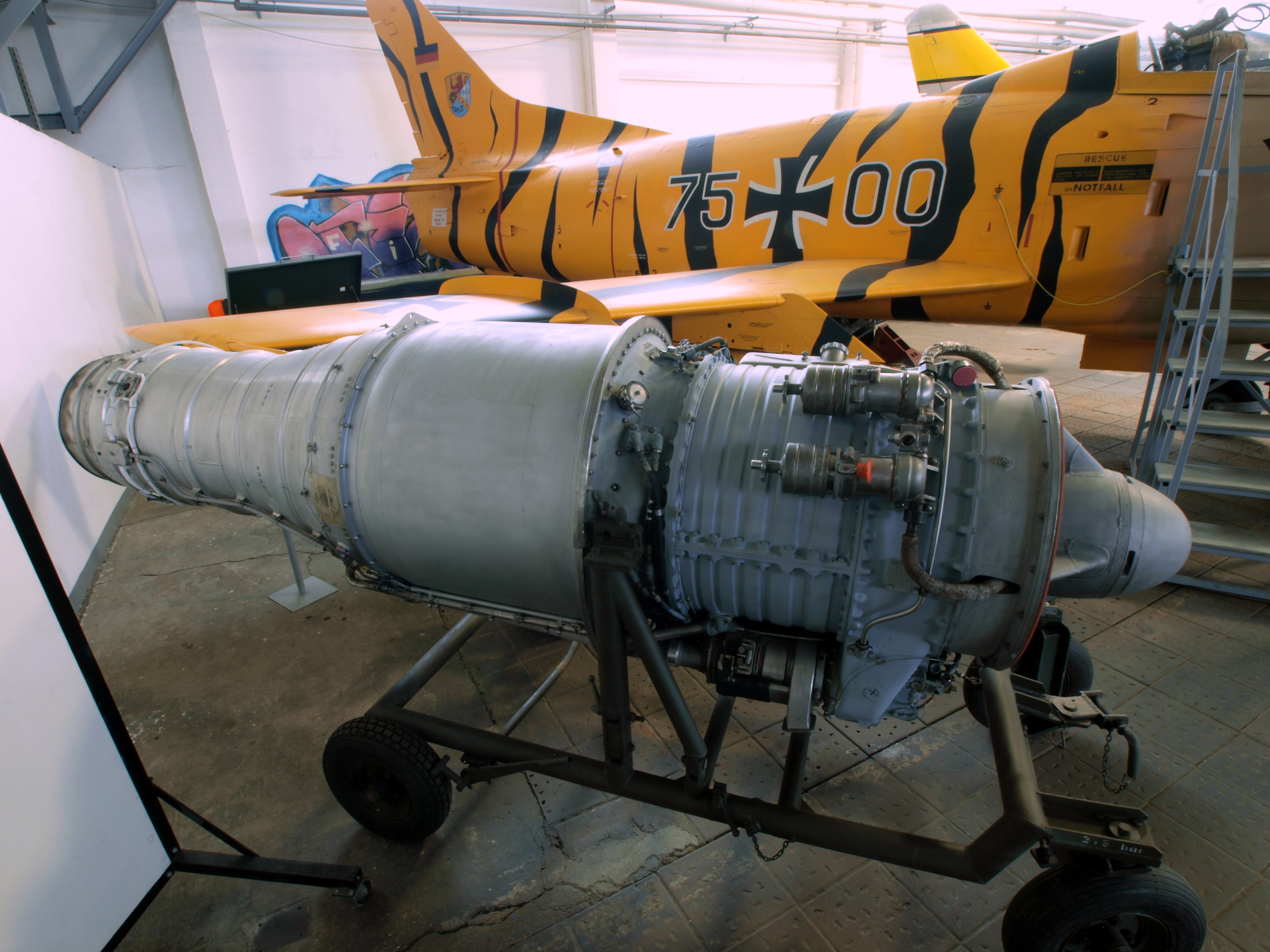 Bristol Siddeley Orpheus of a Fiat G91